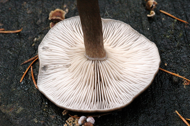 Pseudoclitocybe cyathiformis from Commanster, Belgium. The determination of the species shown in this picture has been verified.